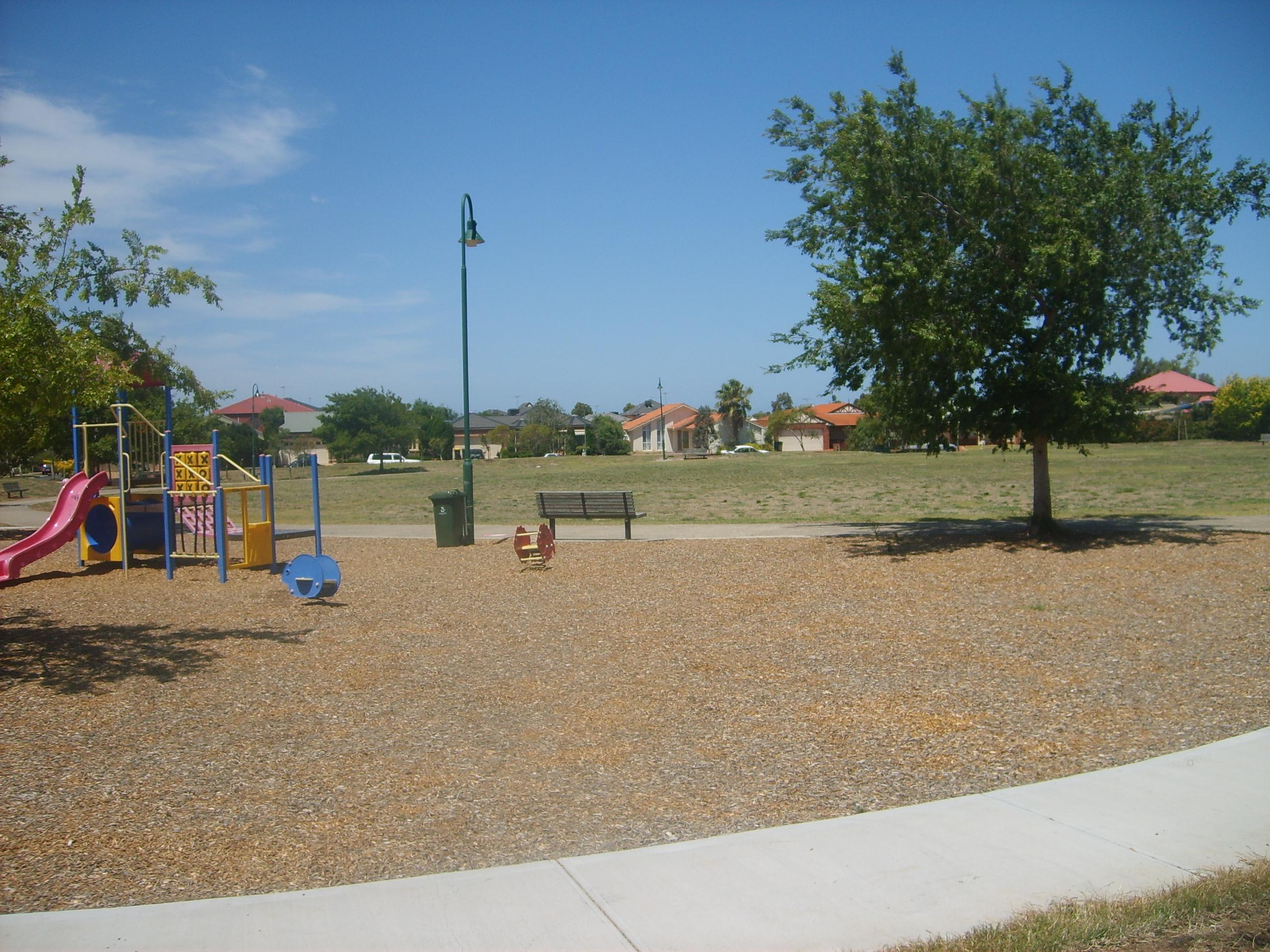 Homestead Run Reserve in Seabrook, Australia.